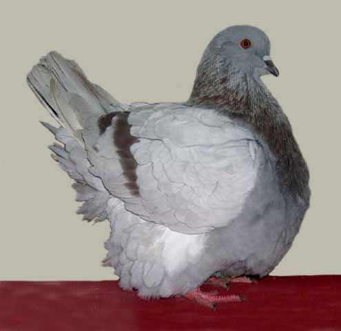 French Mondain. A mealy colored (European style) French Mondain.